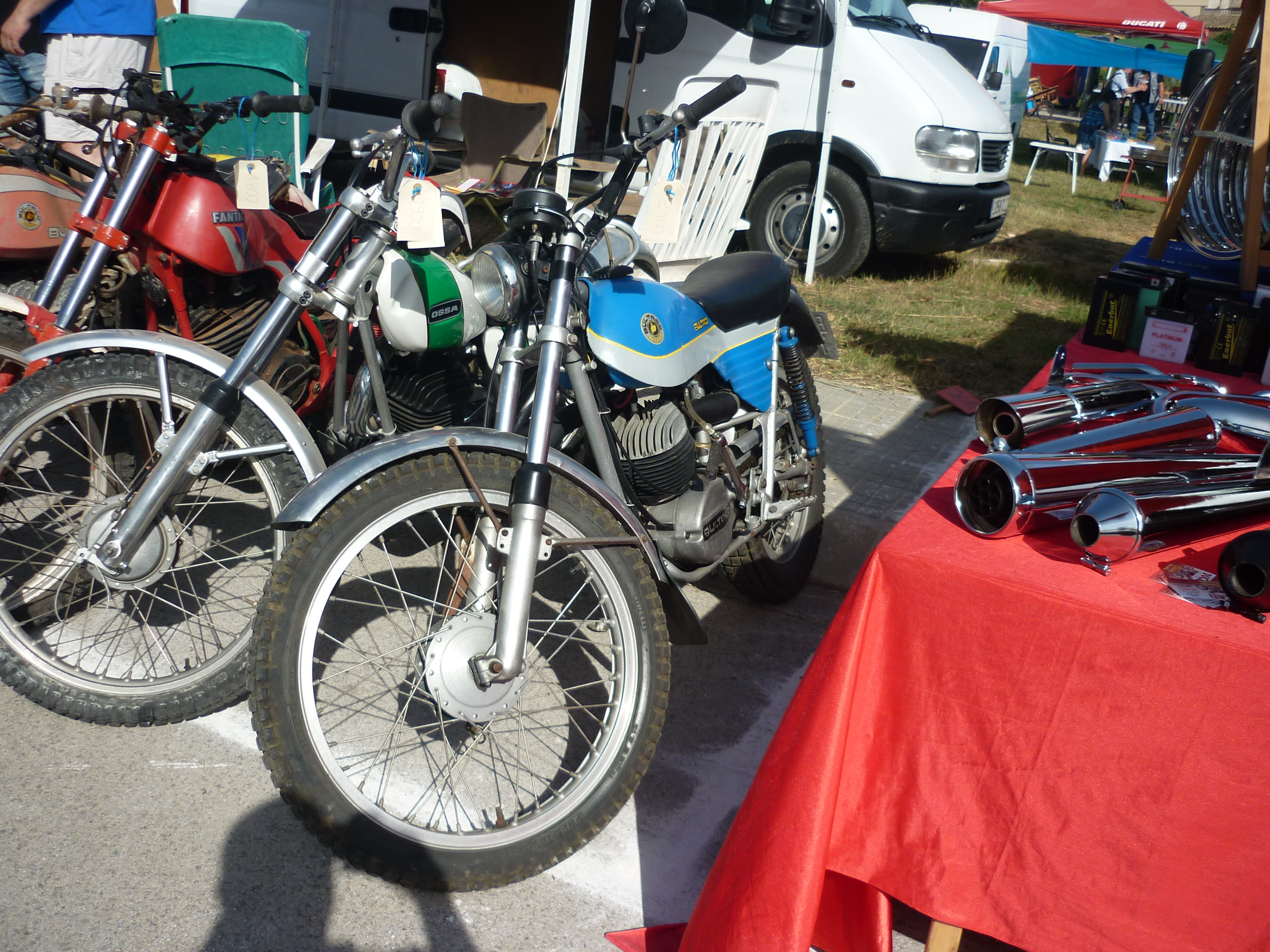 In blue: Bultaco Alpina 350, 1971